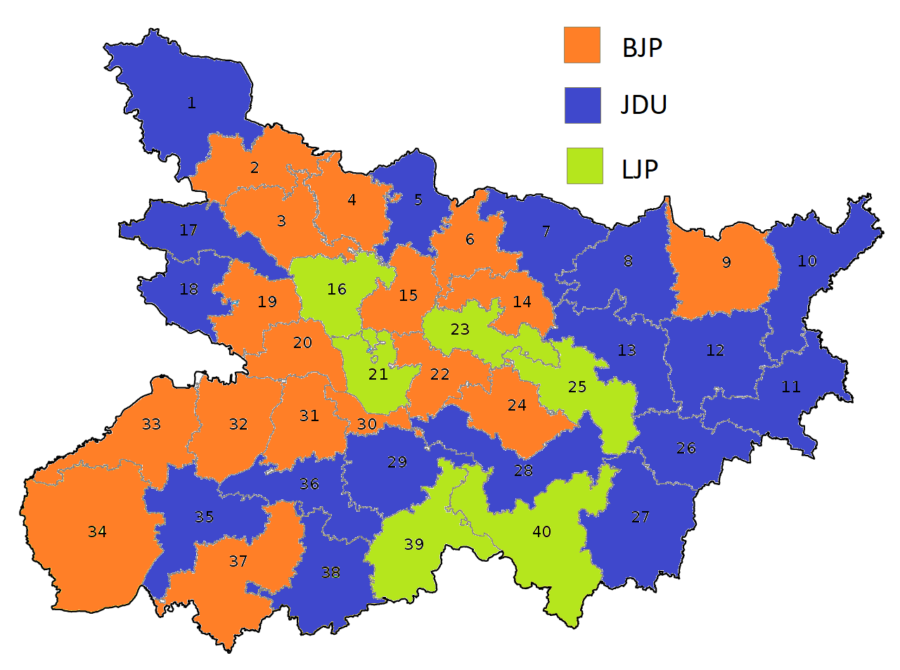 Seat Sharing among various NDA partners in Bihar colour coded